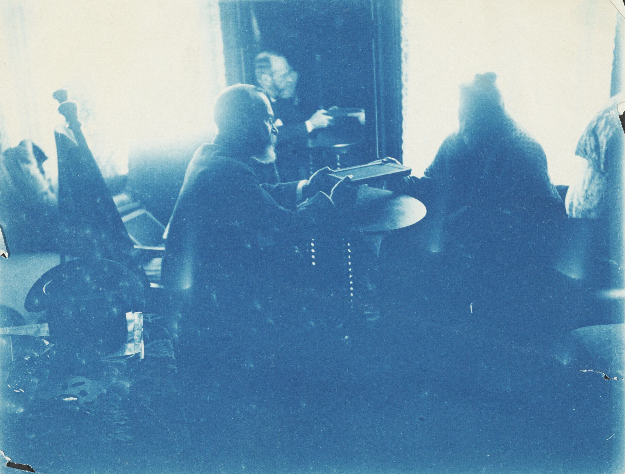 Photograph: William James (1842-1910) sitting with Mrs. Walden in Séance. Undated but before 1910. Photographed by "Miss Carter". Cropped to remove some of the damage in original photo. MS Am 1092 (1185), Houghton Library, Harvard University